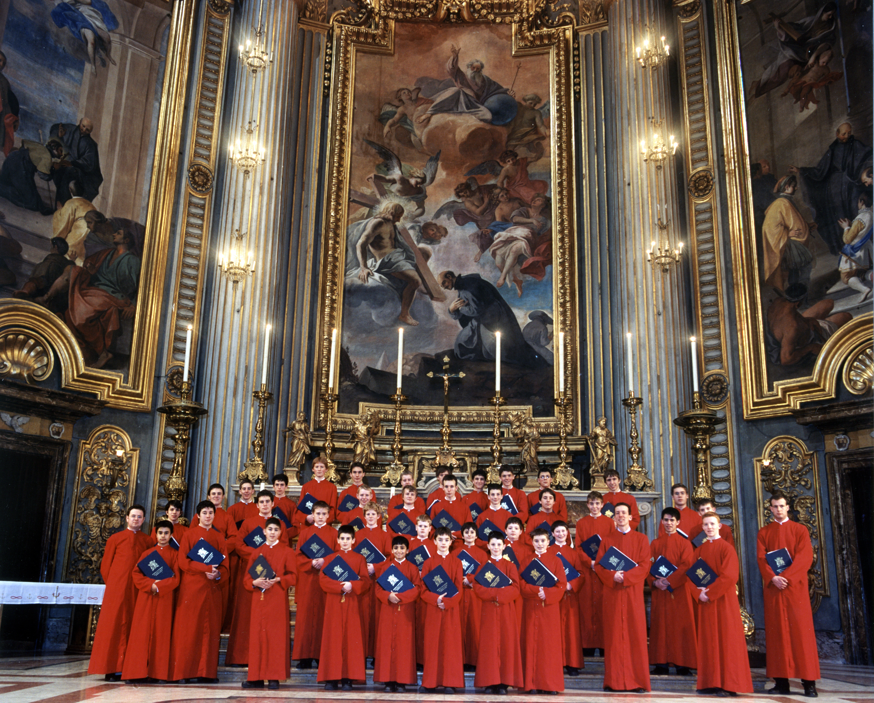 The Schola Cantorum of the Cardinal Vaughan Memorial School, London, at the Church of St Ignatius of Loyola at Campus Martius, Rome (photo used as cover image for the choir's CD Lauda Sion)